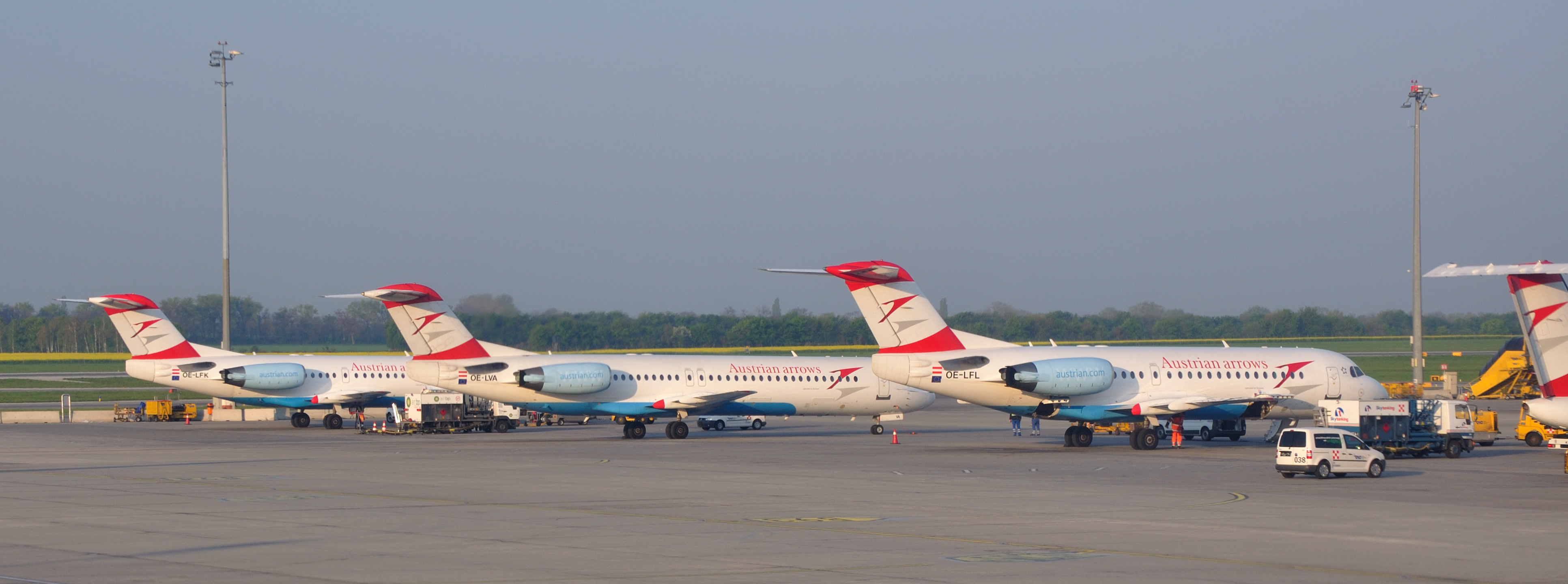 Austria, early morning at Vienna Intl. Airport, some Fokkers 70 and 100 of Austrian Arrows waiting for the day's work.